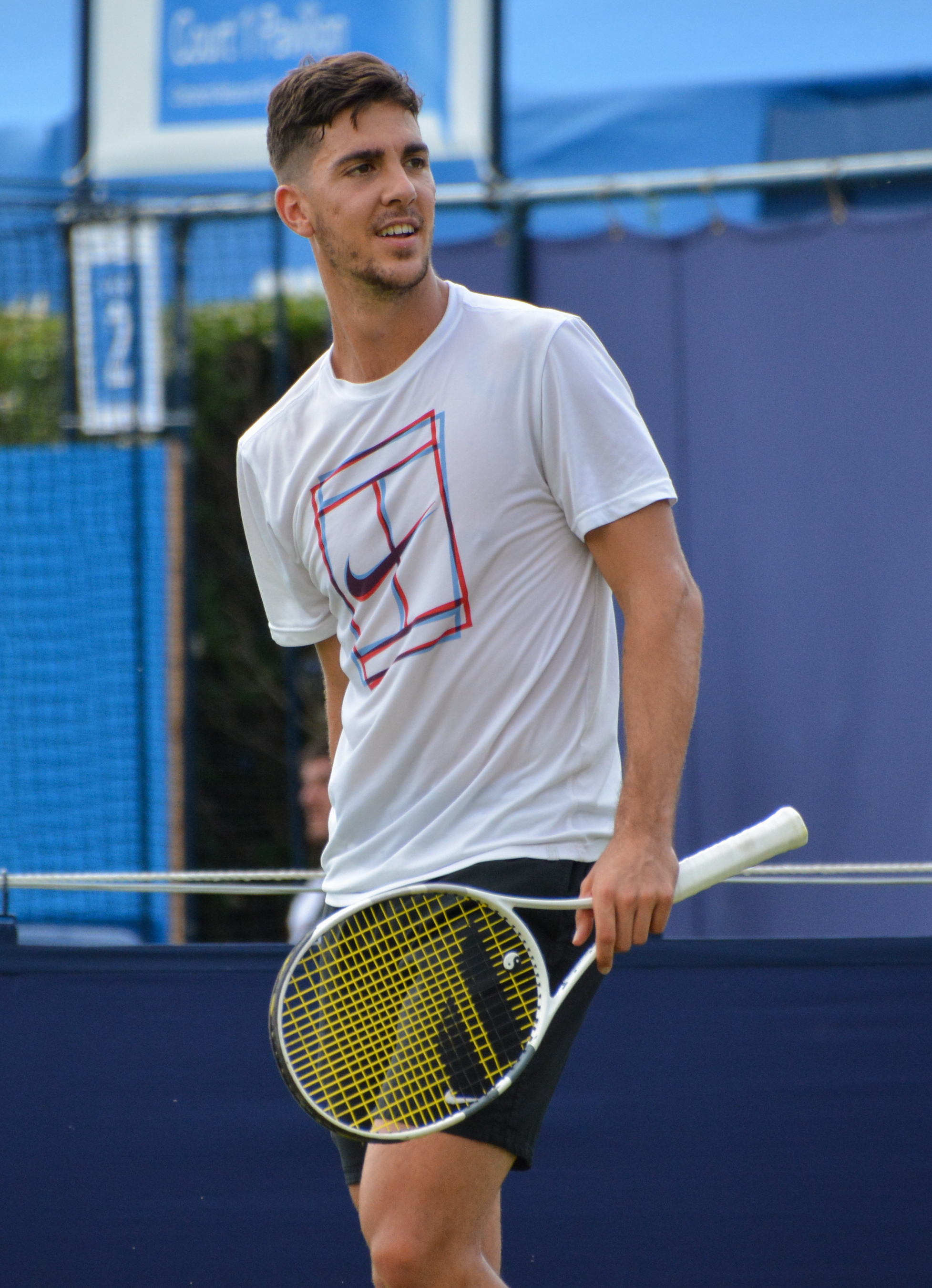 On the practice court, Aegon Championships 2017.